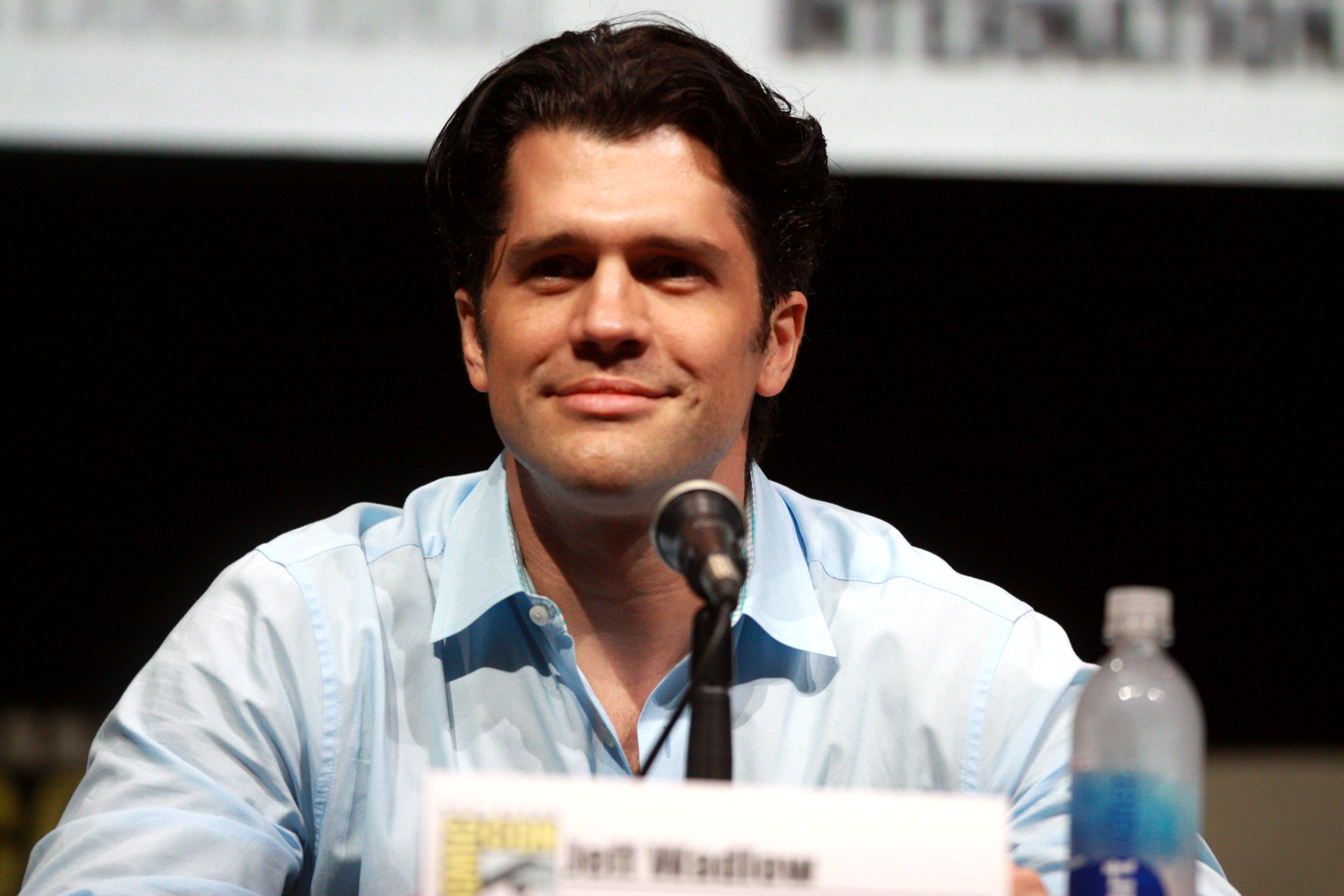 Jeff Wadlow speaking at the 2013 San Diego Comic Con International, for "Kick-Ass 2", at the San Diego Convention Center in San Diego, California.